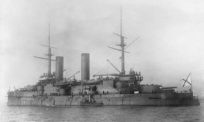 Russian Battleship Slawa (1915)